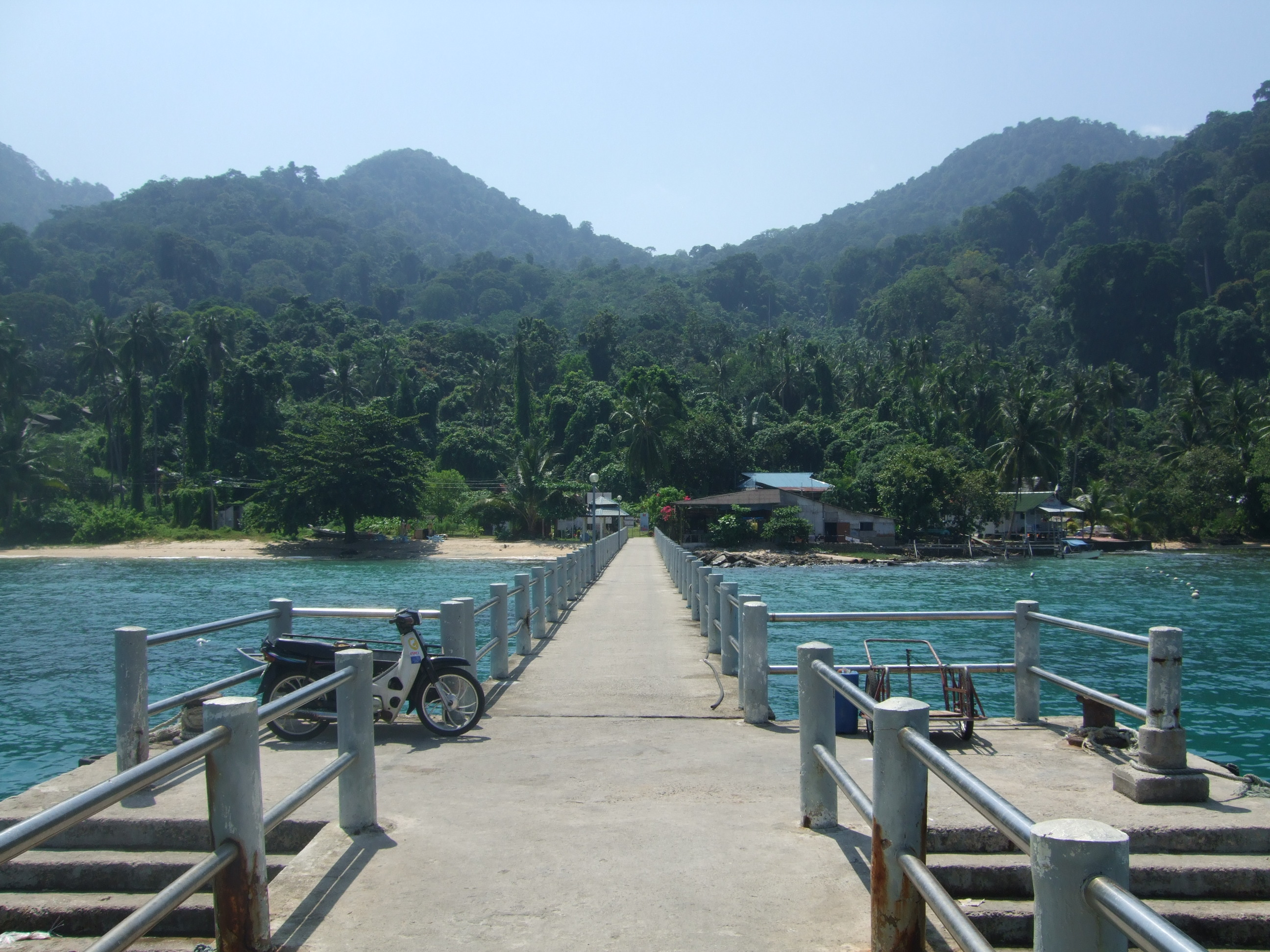 The view from Air Batang Bay jetty, Tioman